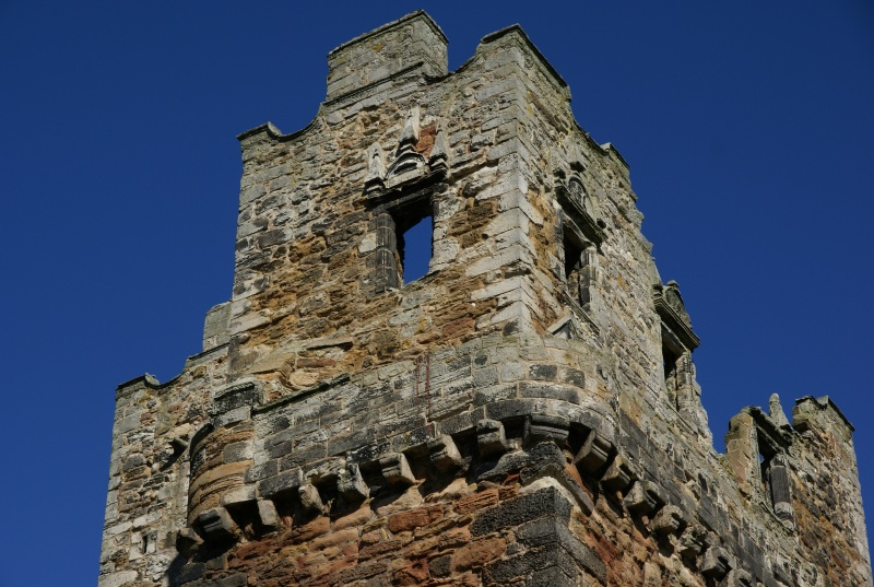 Preston Tower, East Lothian, Scotland. Detail of upper storeys.